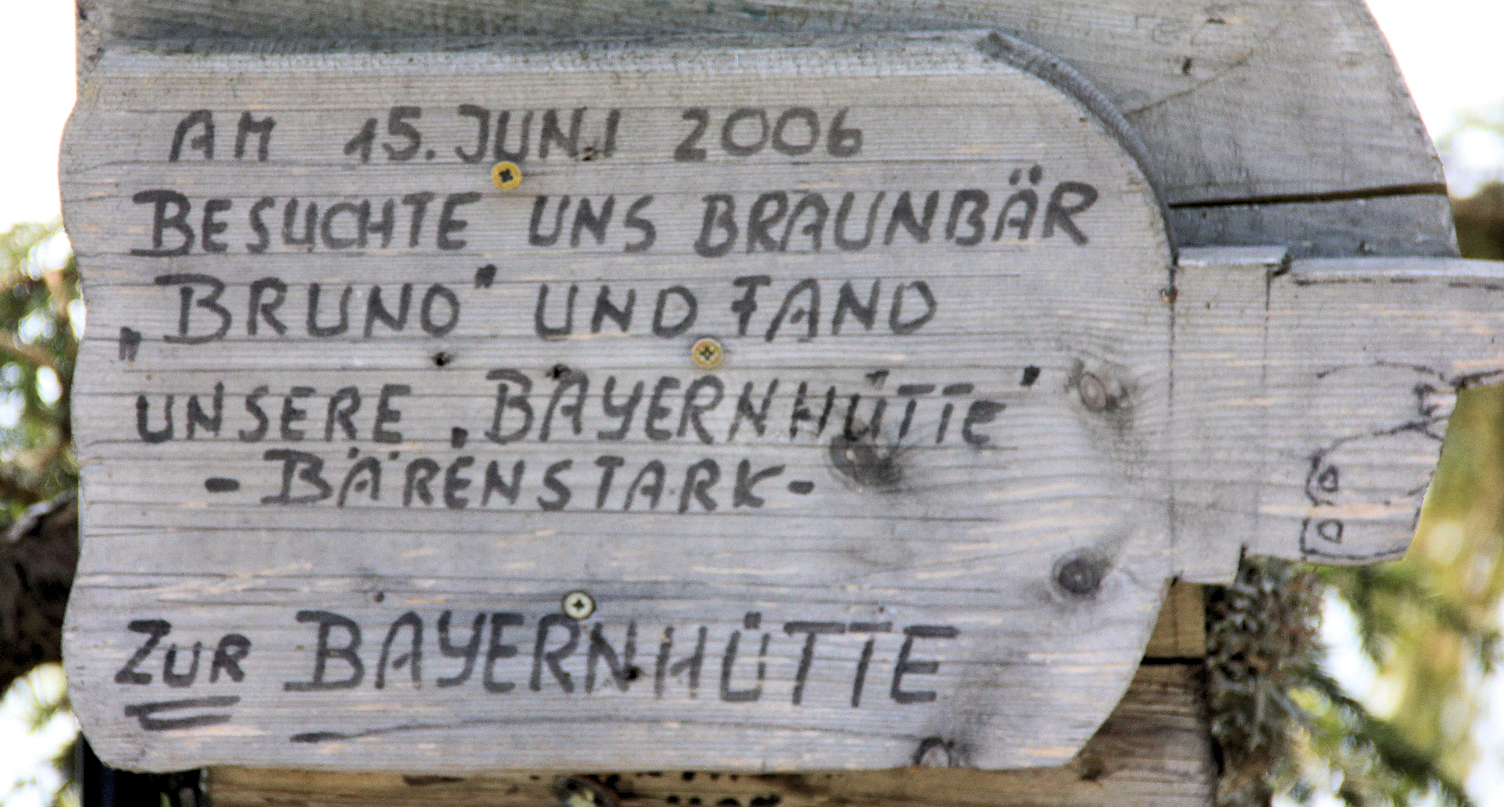 Memorial plaque, Braunbär Bruno, Bayernhütte, Lenggries, Germany